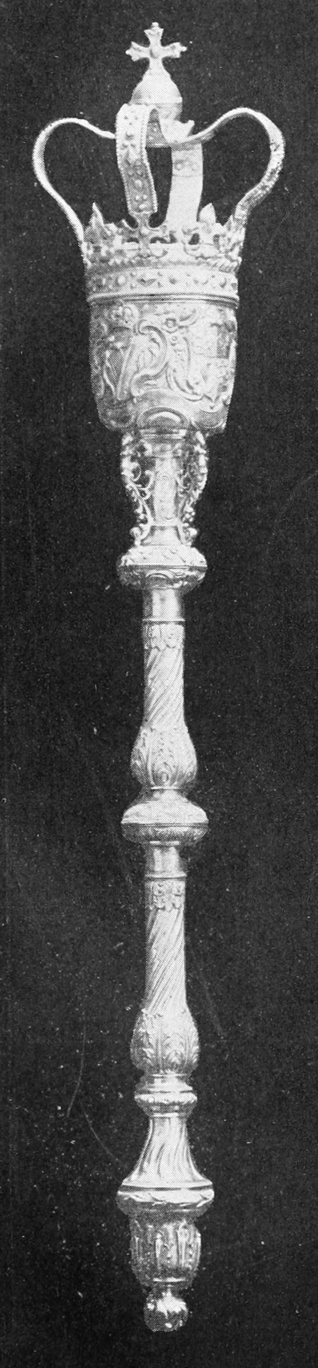 Photo of the mace given to the city of Norfolk, Virginia in 1754 by the Royal Governor, which has survived to the present day. Photo dated 1909.